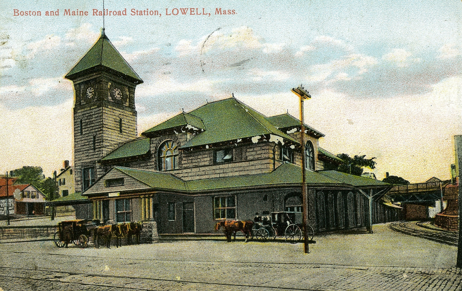 Early divided back postcard of Middlesex Street (Union) station in Lowell